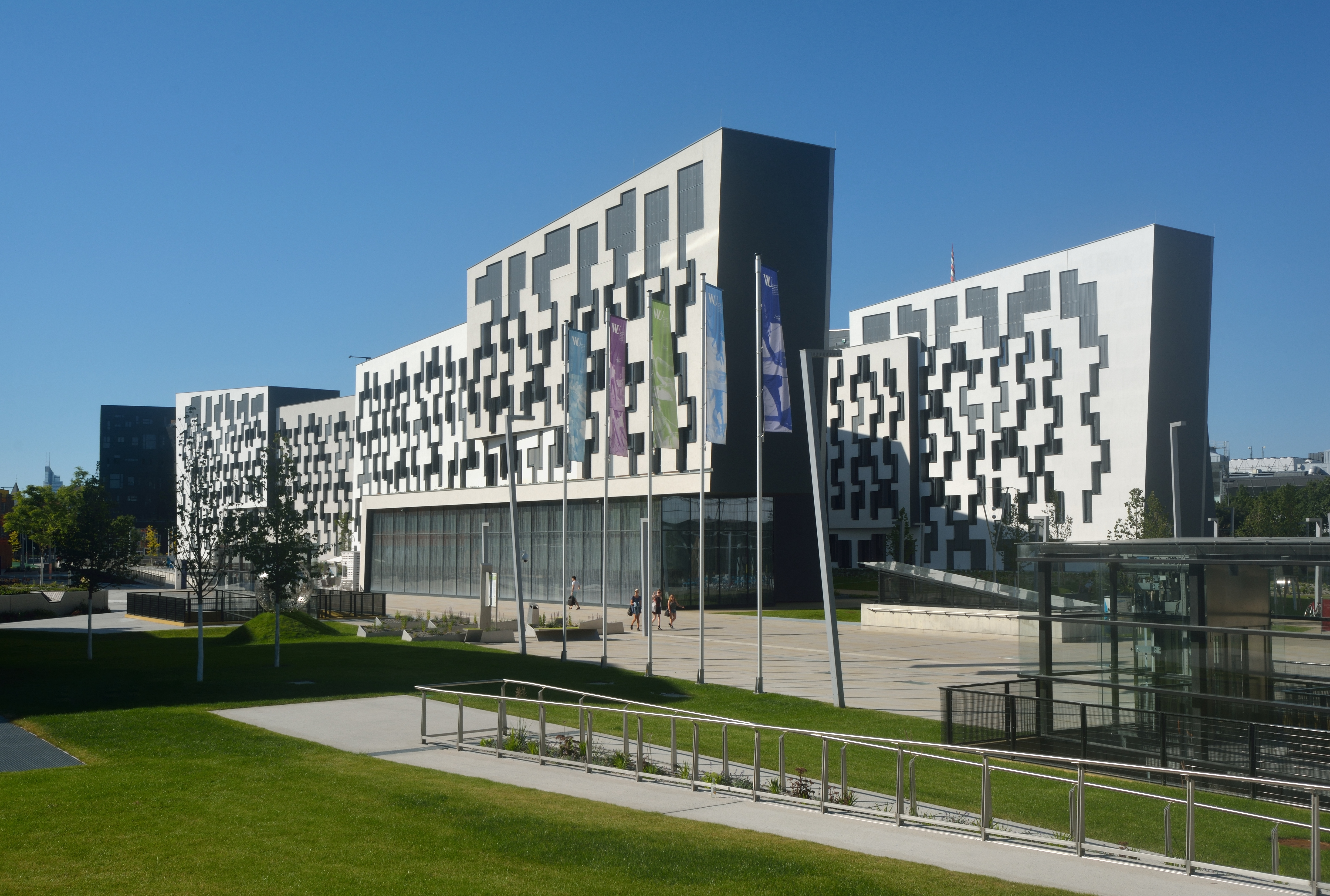 Campus of the Vienna University of Economics and Business, Departement 4 (architect: Carme Pinós), Welthandelsplatz 1, 2nd district of Vienna.